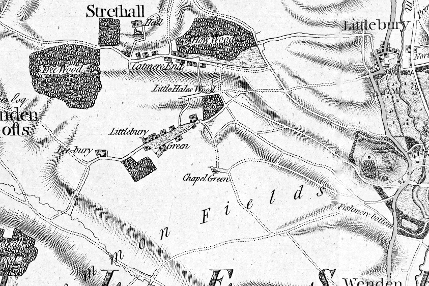 1777 Chapman and André map of Littlebury parish in Uttlesford, Essex, England.